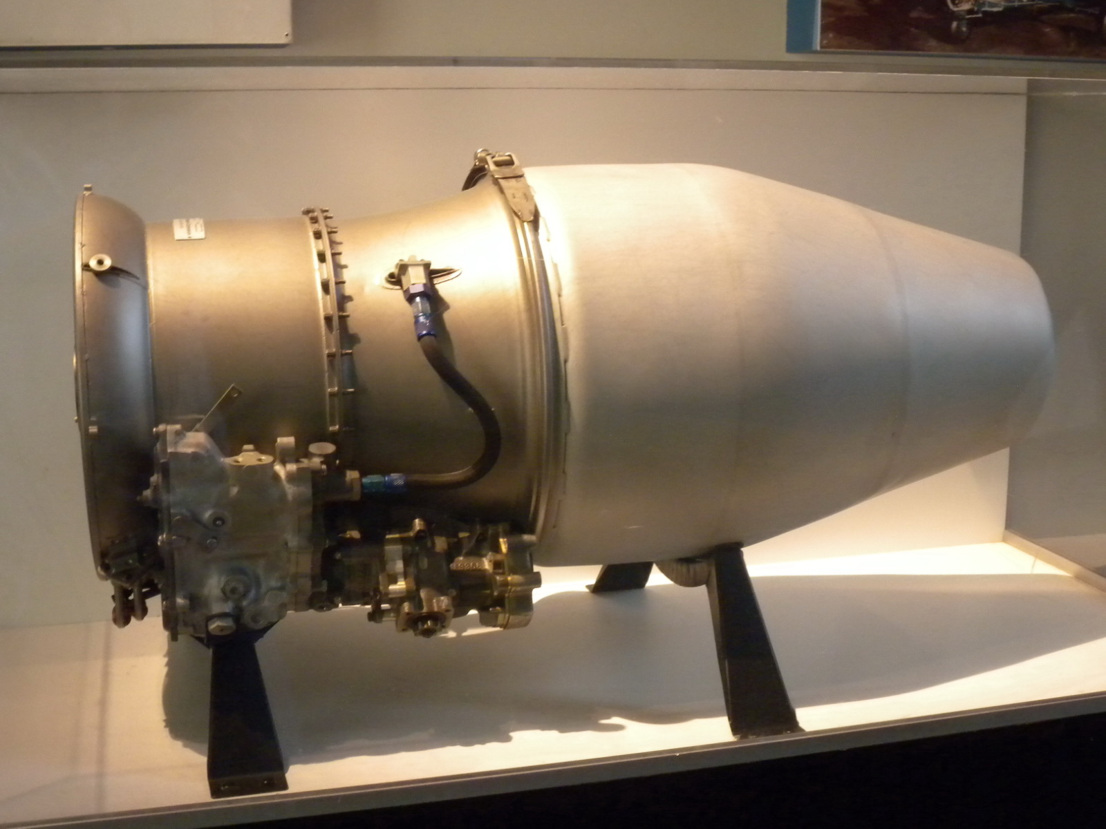 Williams International WR19 turbofan engine (serial number 3). On April 7, 1969, Robert Courter, a Bell test pilot, made the first free flight of the WR19-powered Jet Flying Belt unit strapped on his back.